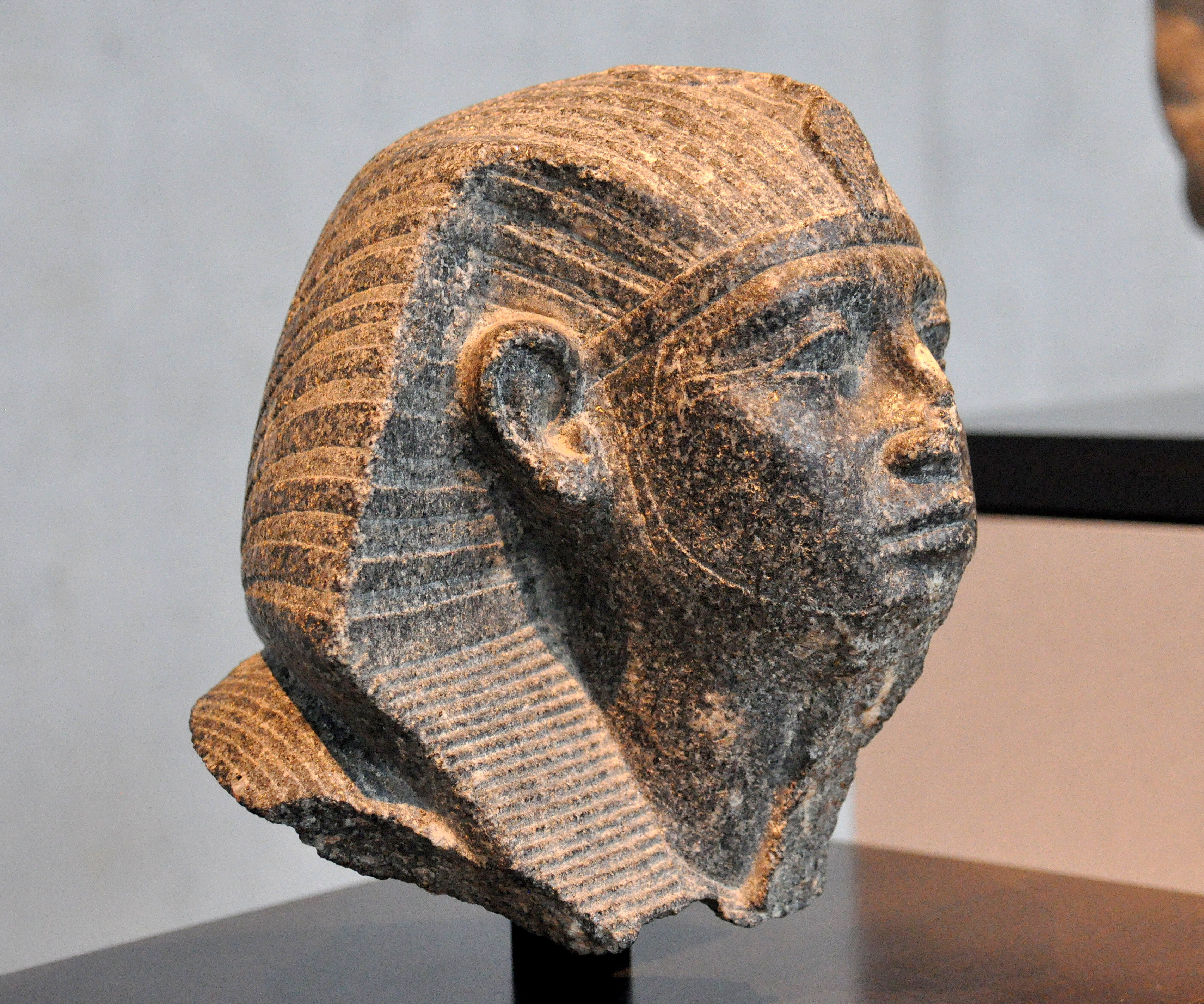 Head of the Egyptian pharaoh Senusret III with youthful features. The head was part of a sphinx. Middle Kingdom, 12th Dynasty, c. 1870 BC. From Egypt. Granite. State Museum of Egyptian Art, Munich, Germany. Acquired with the help of the the Friends of the Egypotian Museum, Munich.